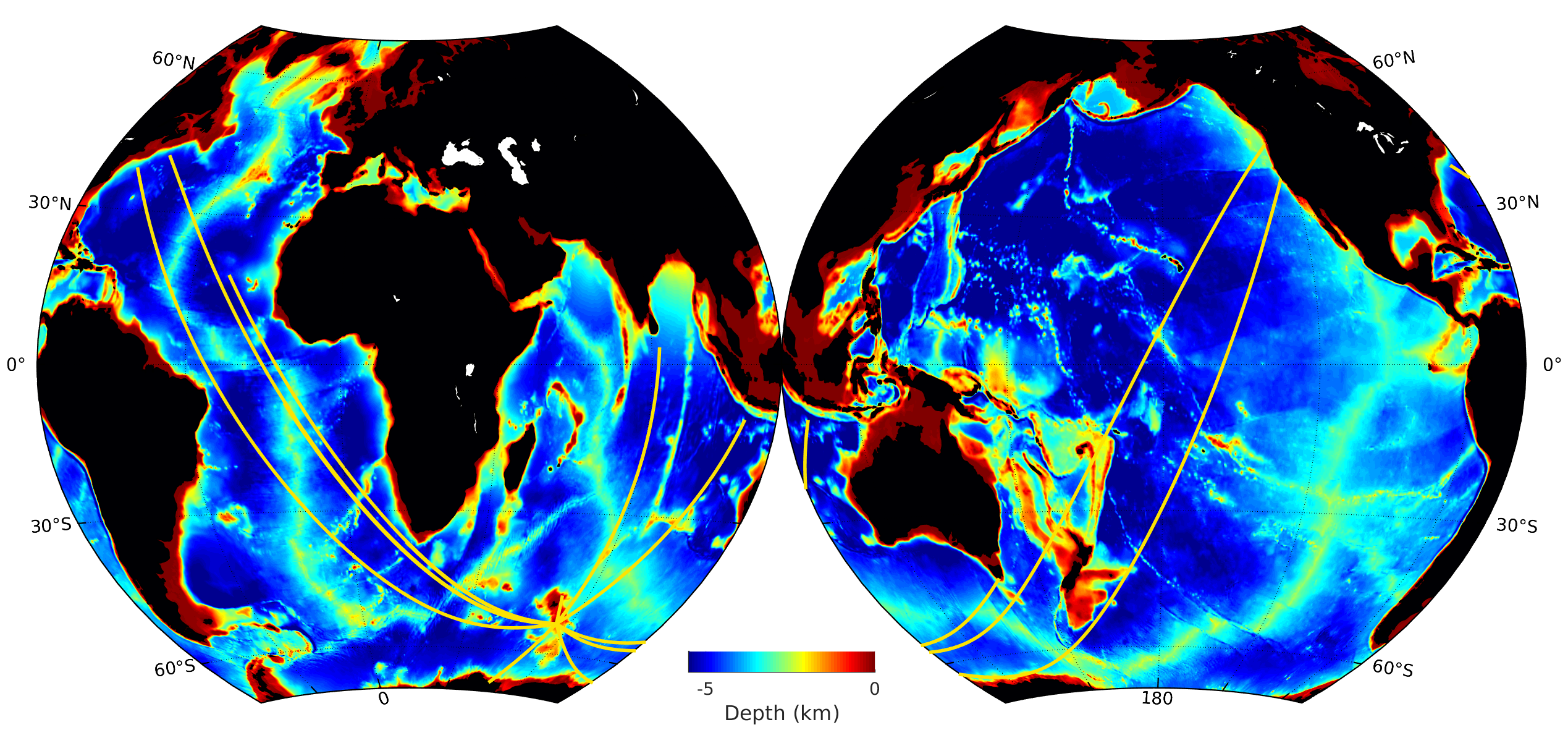 An acoustic experiment in 1991 called the Heard Island Feasibility Test (HIFT) tested the ability of sound signals to measure ocean temperature. The coded signals transmitted during the tests traveled geodesic paths to several receivers located in the Indian, Pacific, and Atlantic Basins. The signals arrived on both coasts of North America. The transmission point, near Heard Island in the Southern Indian Ocean, was chosen to allow acoustic measurement of all the major ocean basins.